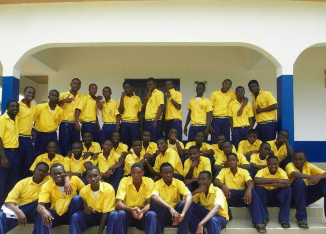 Abandze